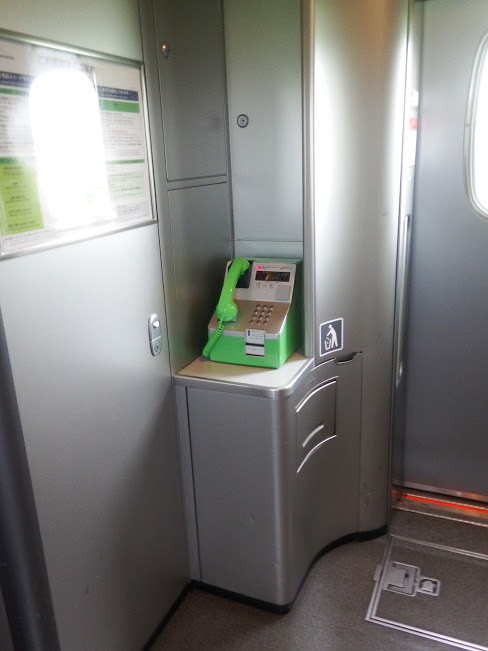 Public telephone which be installed in SHINKANSEN,or tokaido shinkansen line,Japan.